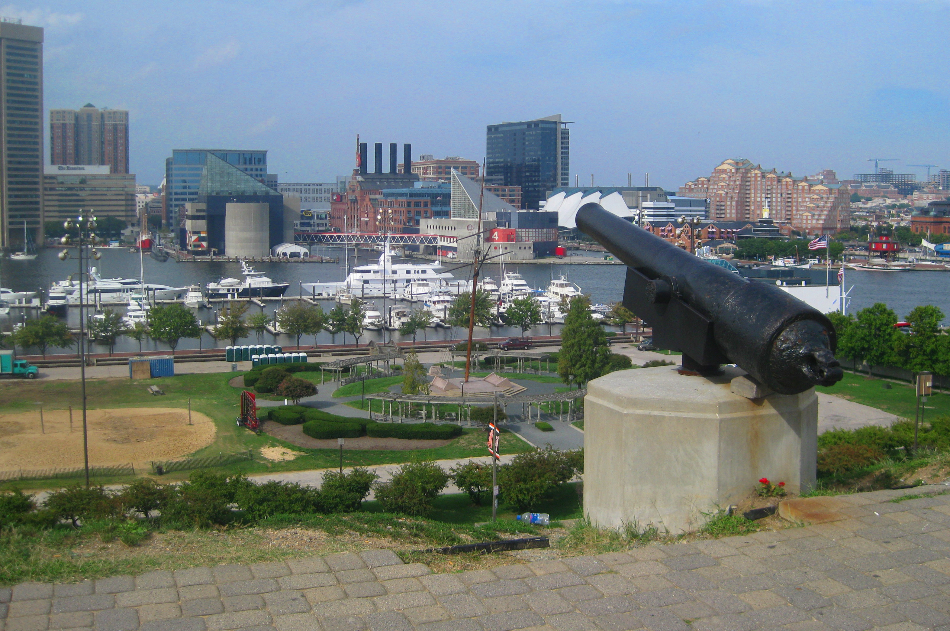 Cannon on Federal Hill overlooking downtown Baltimore, Maryland